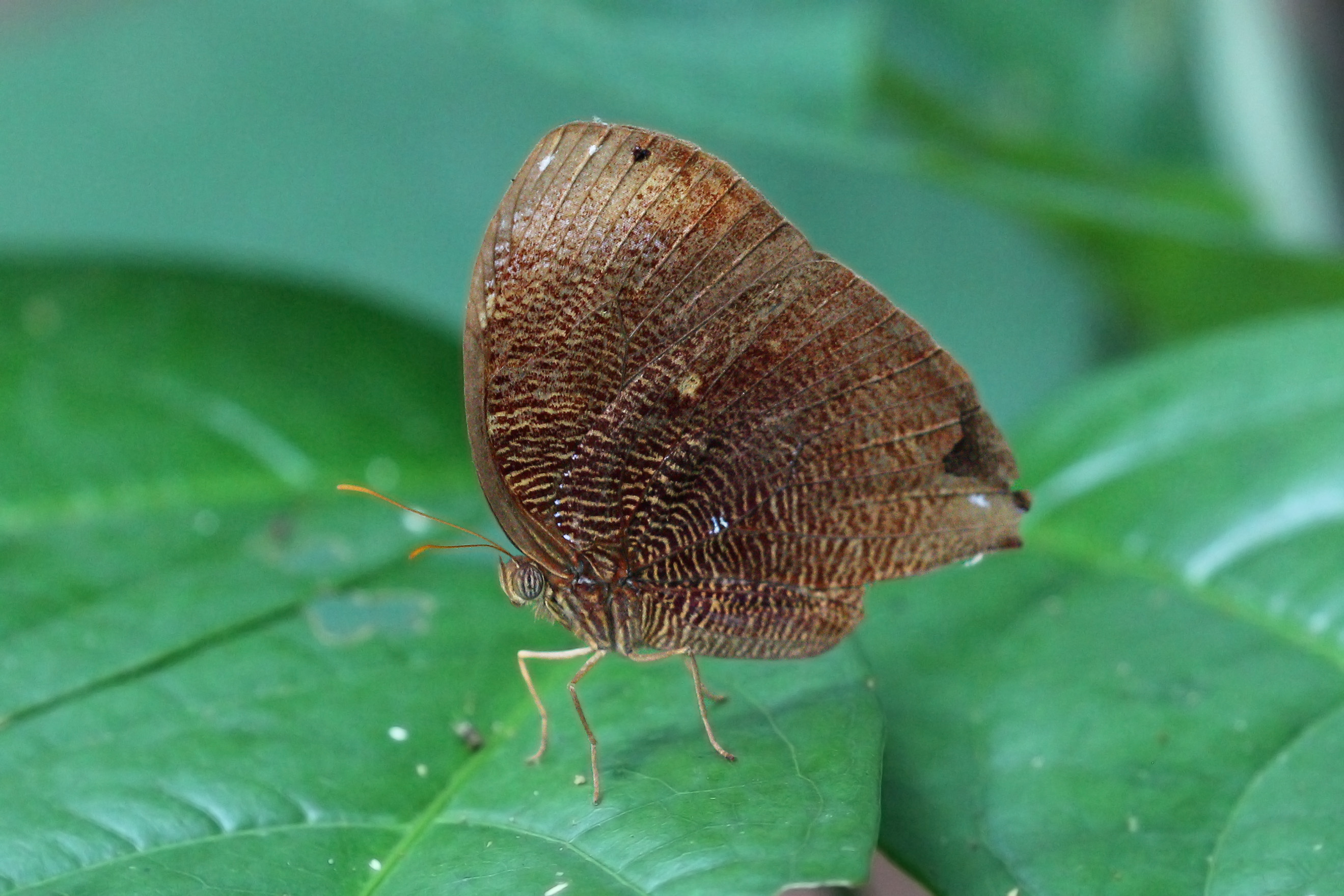 Bia owl, or tailed owlet (Bia actorion), Cristalino River, Southern Amazon, Brazil